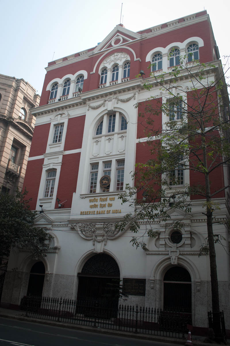 Reserve Bank of India Building